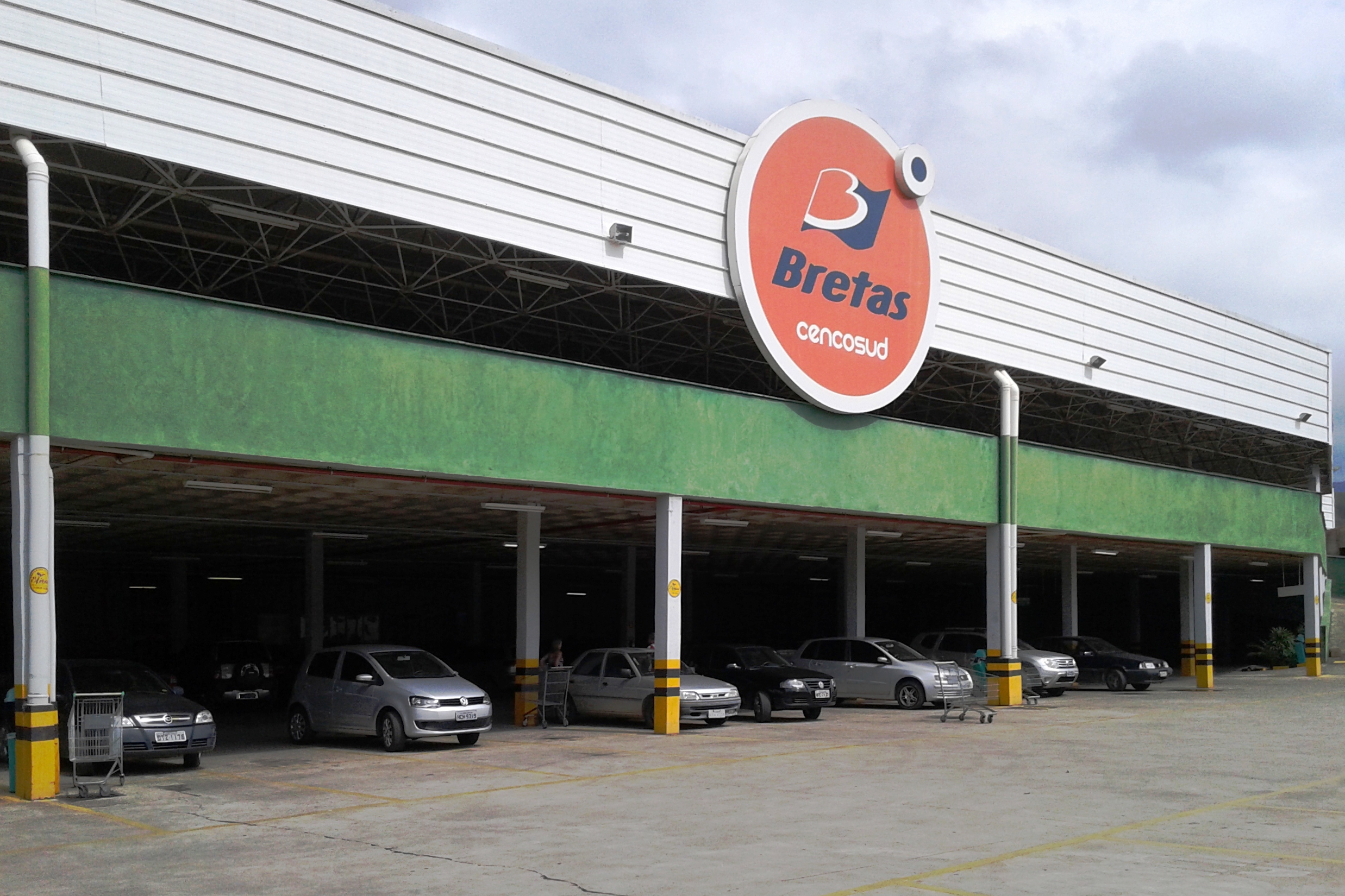 Bretas supermarket of the Olaria neighborhood in Coronel Fabriciano, Minas Gerais, Brazil.